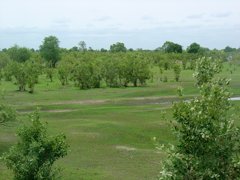 Tambacounda Senegal: Vegetation around the airport. (Rainy season)